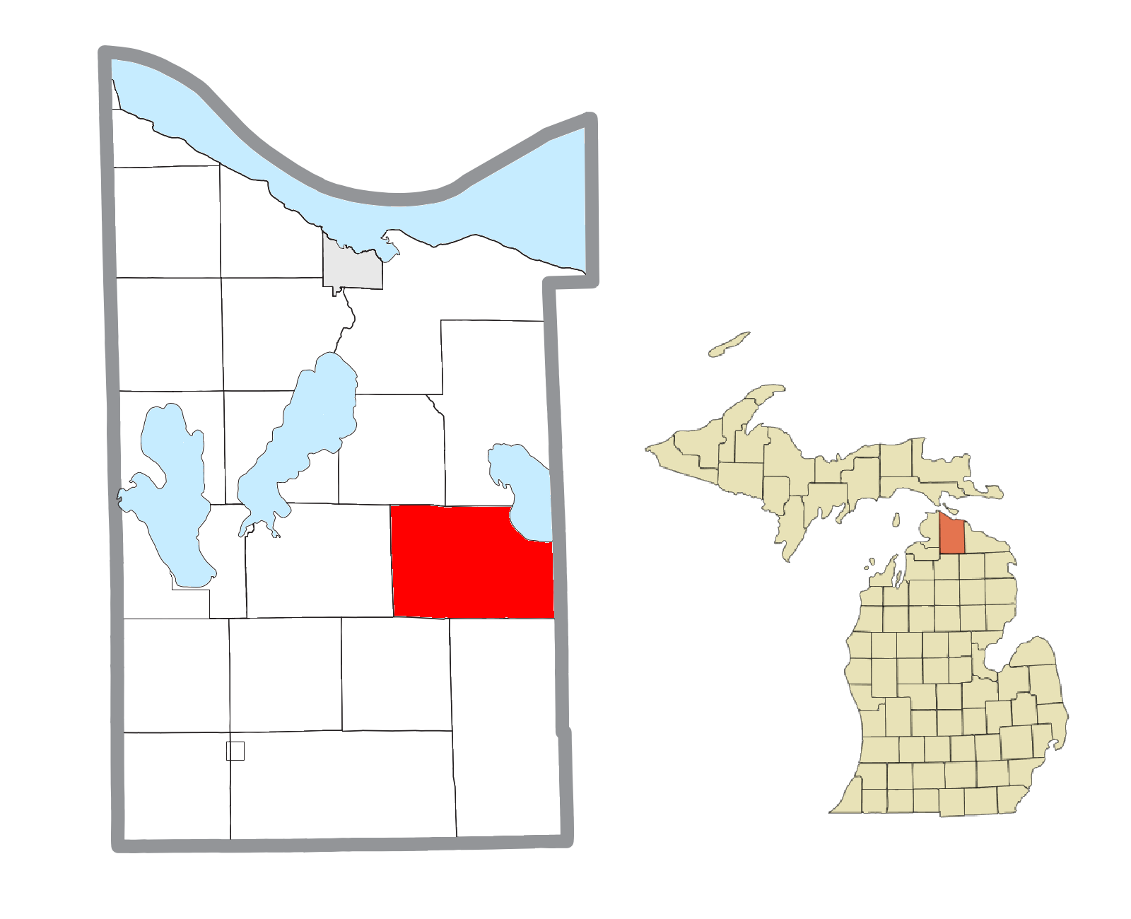 Waverly Township, MI